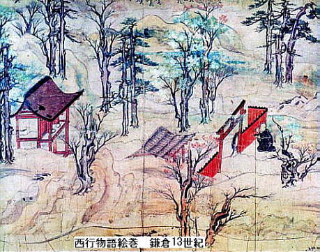 Saigyo Monogatari Emaki - Tsunetaka. On the way toward Kumano Sanzan, Saigyo prays and writes and poem for the divinity of a small shinto shrine.